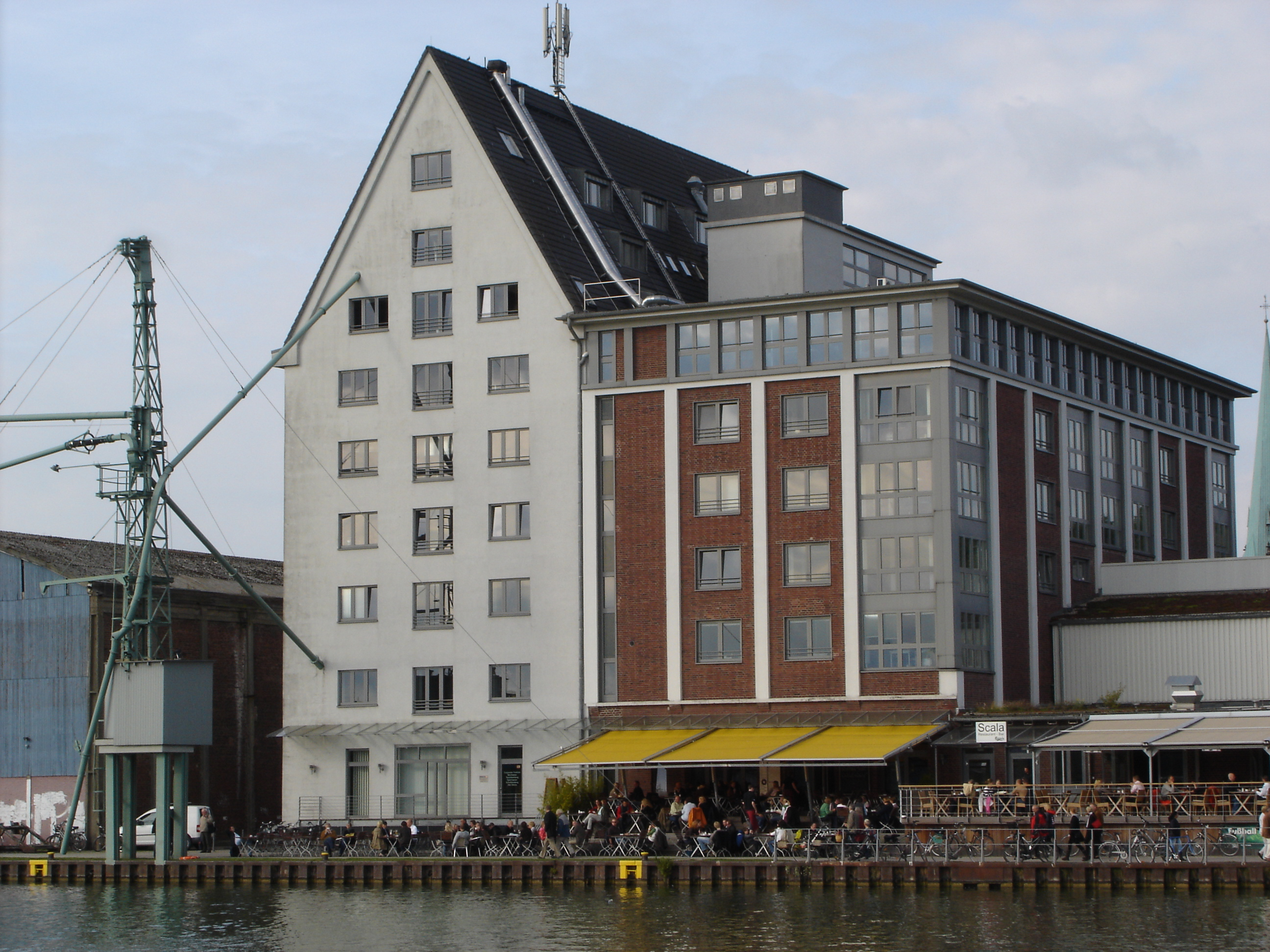 Office building at Hafenweg 46-48 in Münster, Westphalia, Germany